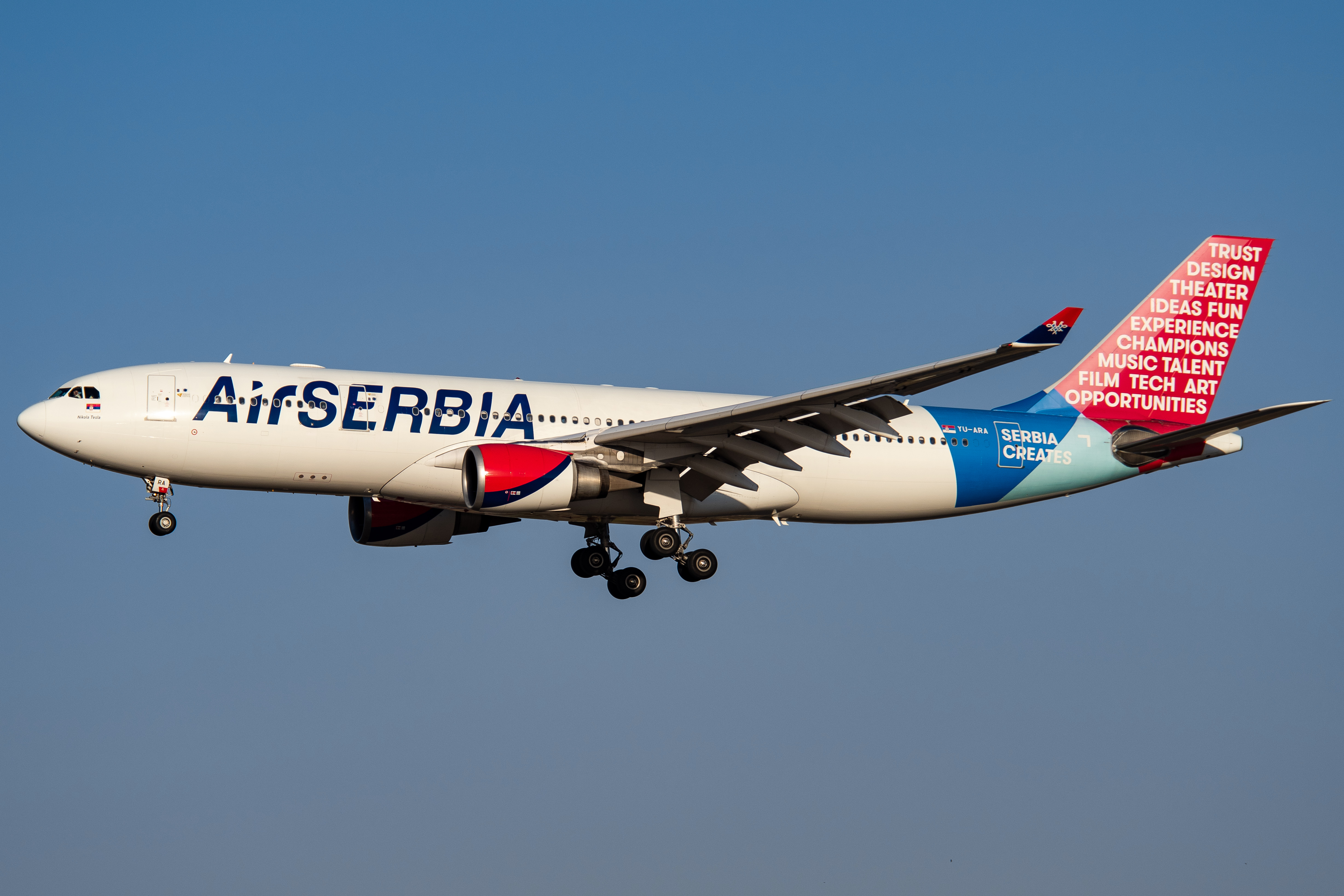 ASL001 from Belgrade, quite possibly to pick up medical supply for the battle against COVID-19. As the slogan "Челични пријатељи, делимо и добро и зло" goes... because YU stands for Yugoslavia, and JU stands for Jugoslovenski Aerotransport!